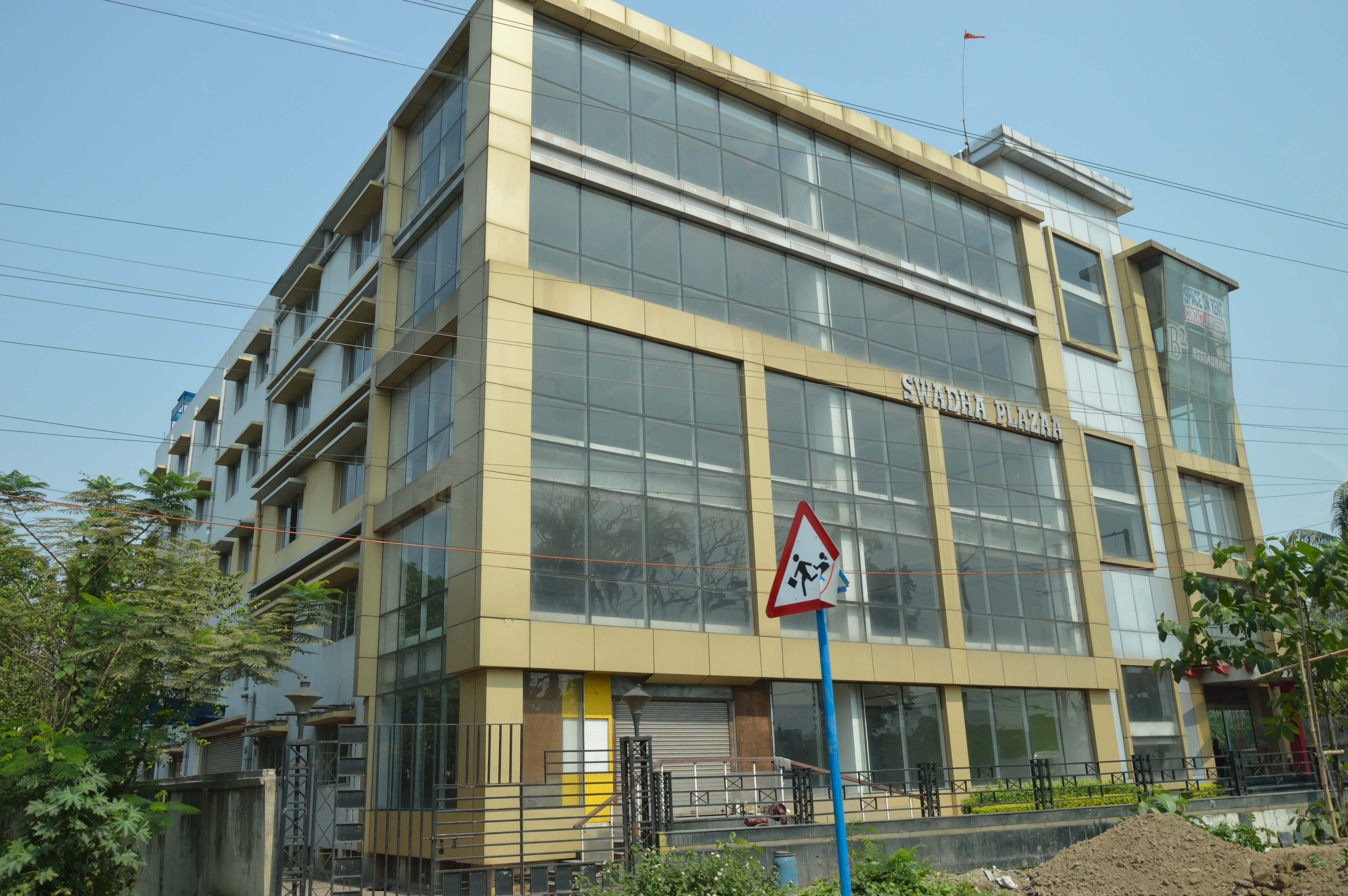 Photographed in greater Kolkata.